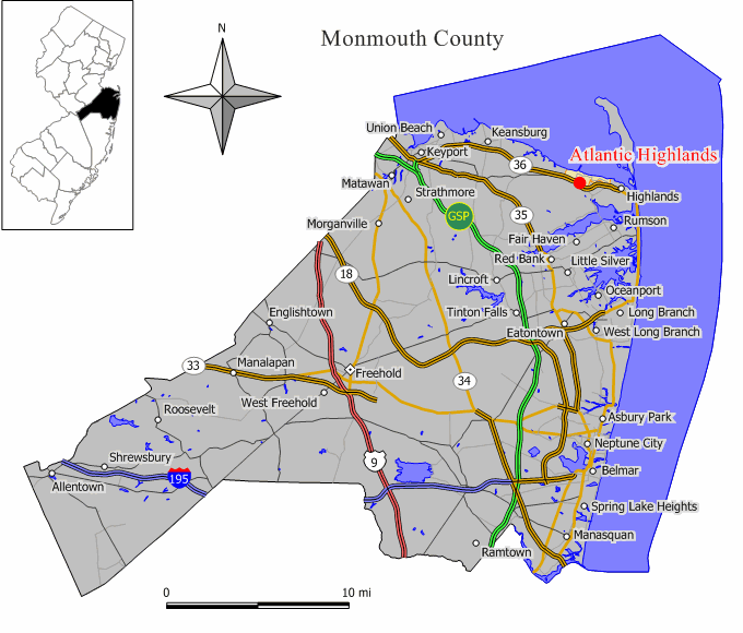 Source: Jim Irwin